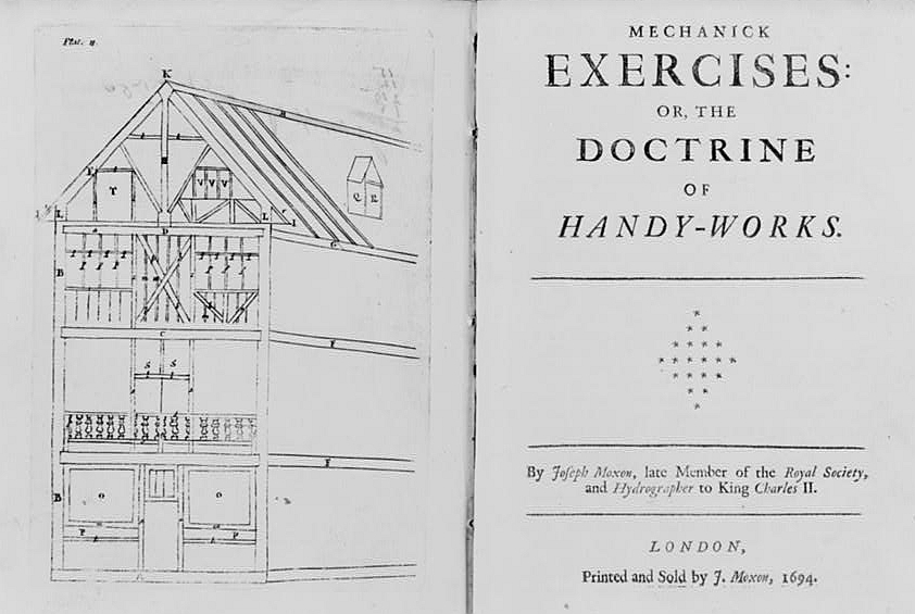 Frontispiece and title page of "Mechanick Exercises: or, the Doctrine of Handy-Works" by British mathematician and lexicographer Joseph Moxon (1627-1691).